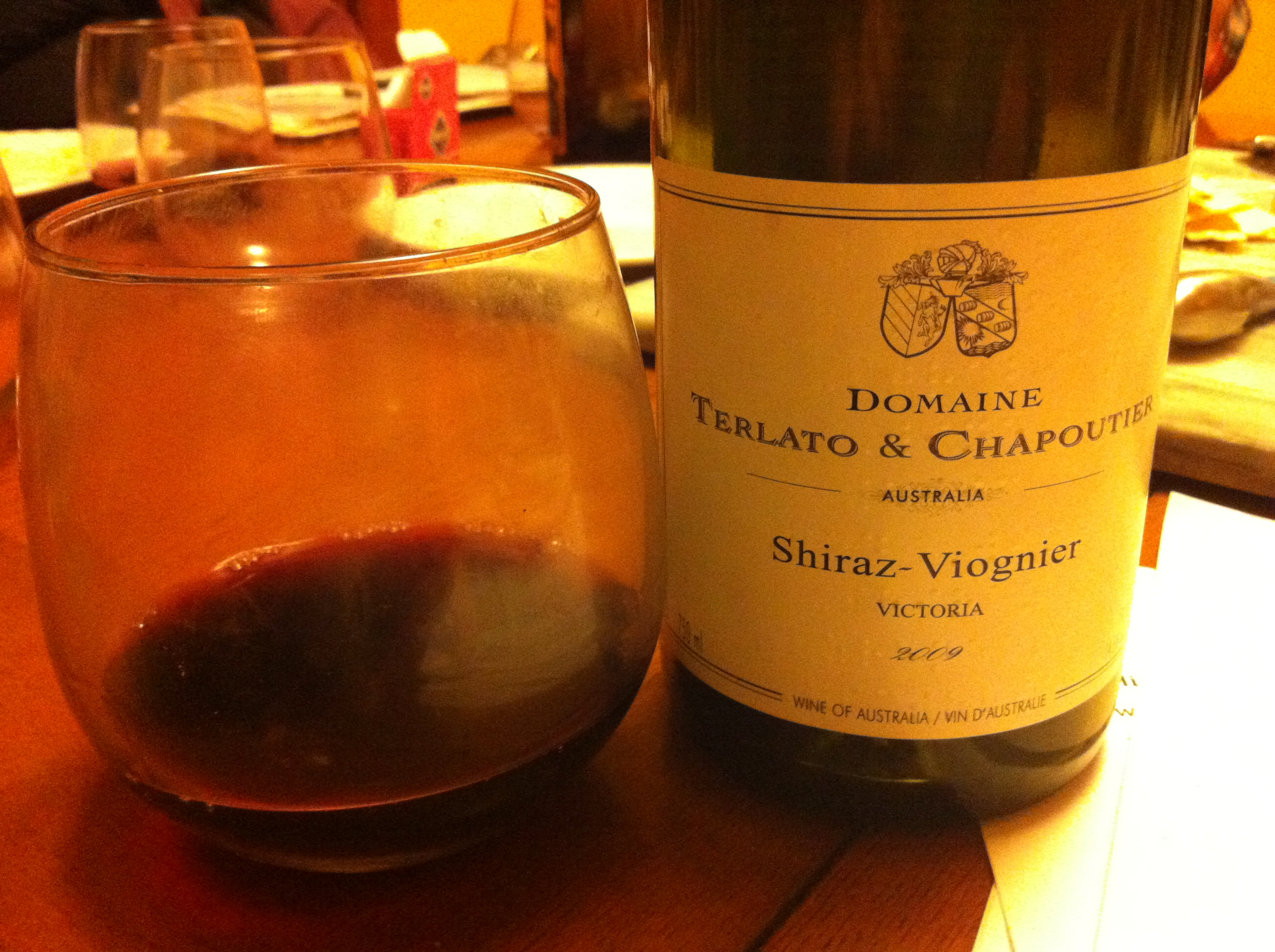 Australian Shiraz-Viognier blend from Victoria